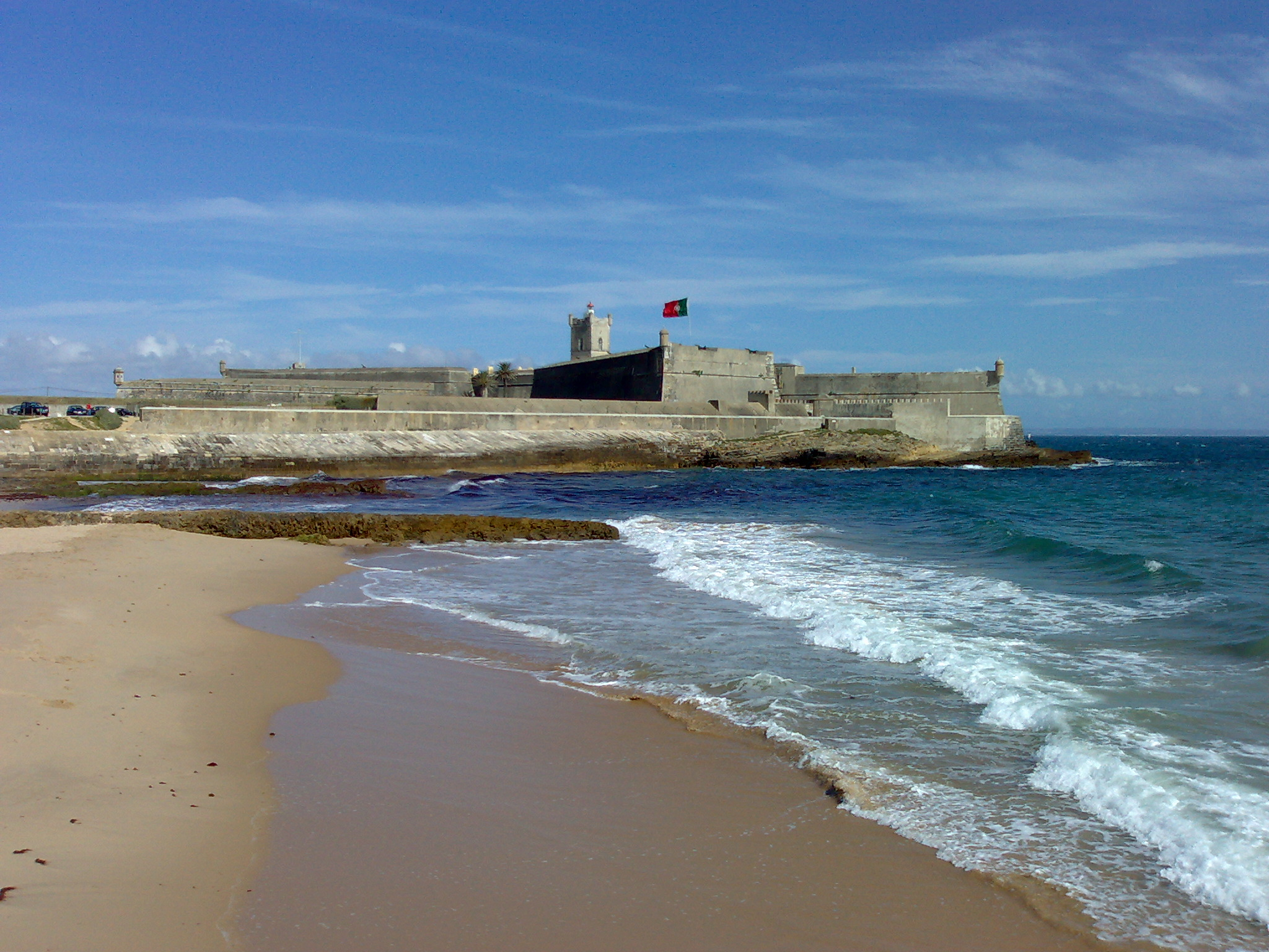 Fortress of São Julião da Barra, Oeiras, Portugal.